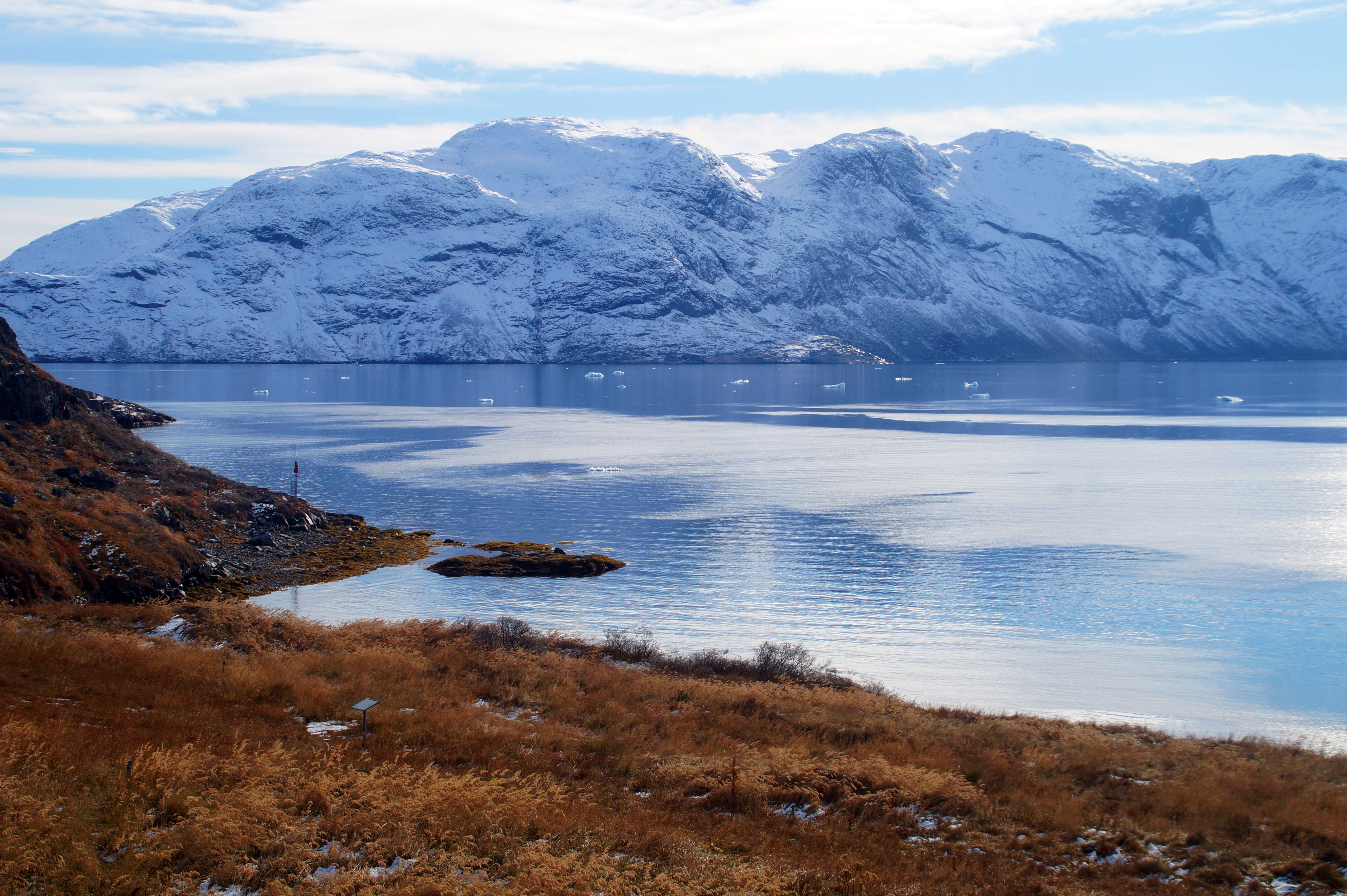 The photograph shows a site near the beach in Narsaq, Greenland in the autumn of 2018. This is an archaeological site where Norse artifacts were discovered in 1953, including the Narsaq stick with a Viking Age runic inscription. Subsequent excavations revealed the remains of a farm from the beginning of the Norse settlement in Greenland. A sign visible in the photograph gives information on the archaeological discoveries. It notes: "To provide an impression of the hall now completely removed by the archaeological excavation turfs have been set on top of the original walls." Some further information on the context of the photograph can be attained from a blog post by Melissa Cherry Villumsen, the photographer: In the Footsteps of the Norse In and Around Narsaq